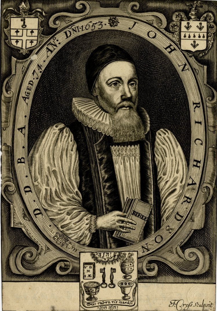 Portrait of John Richardson (1580–1654), English bishop of the Church of Ireland.